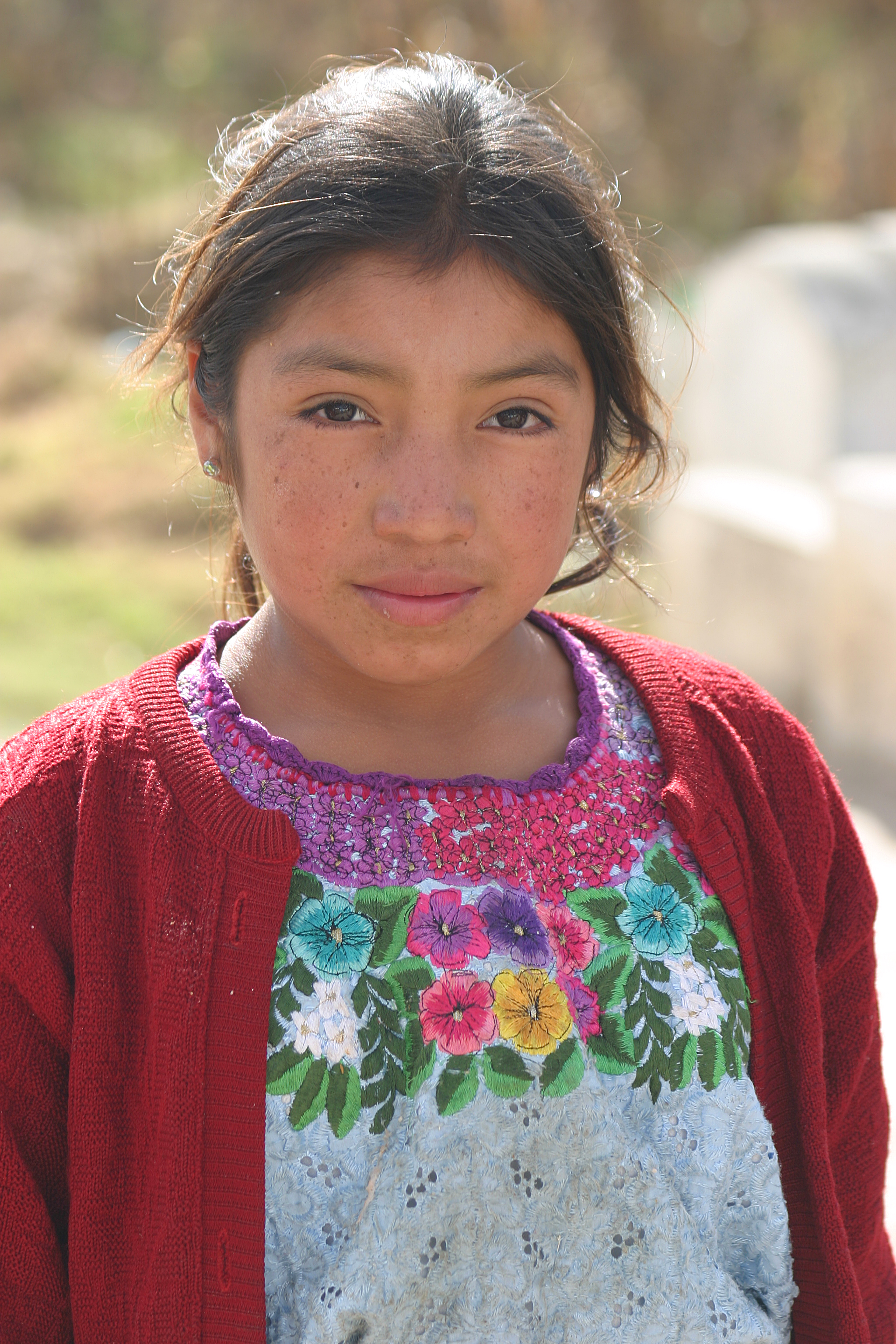 This girl was about 15km from downtown Momostenango, Guatemala. I was with K'iche' Mayan friends trying to fix their water supply when a group of kids showed up and let me take their photos. I sent them snail mail upon returning home.